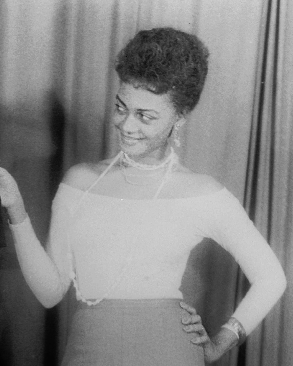 Ethel Ayler (right, b. 1934) and Melvin Stewart, as Zirata and Simple (respectively) in "Simply heavenly" by Langston Hughes